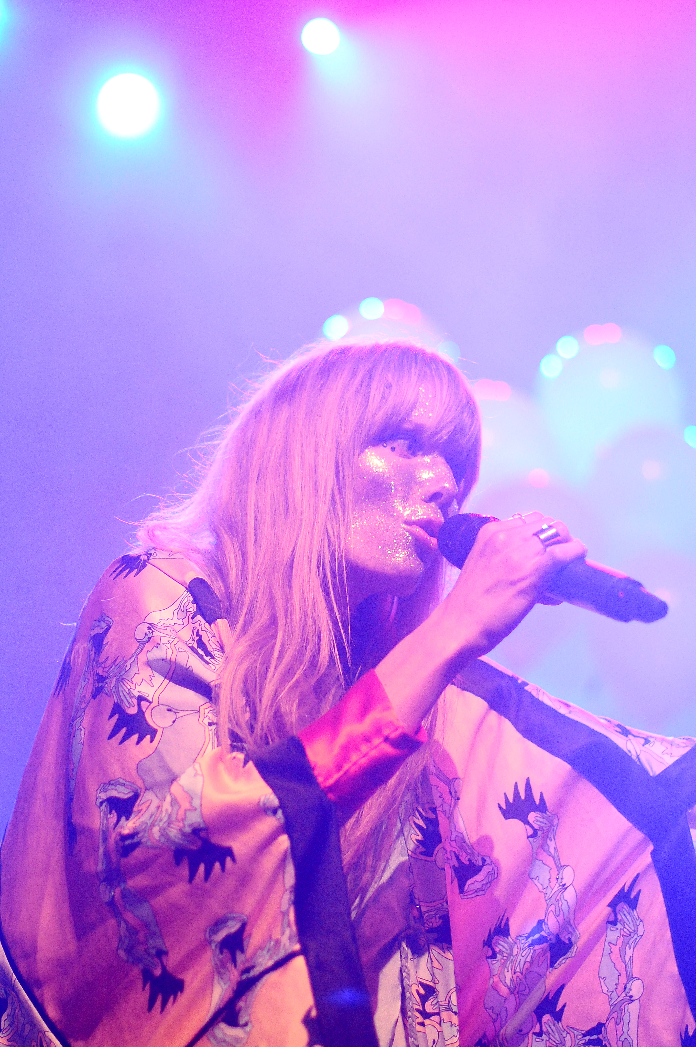 Oh Land (Nanna Øland Fabricius) performing at the Music Box in Los Angeles, California.